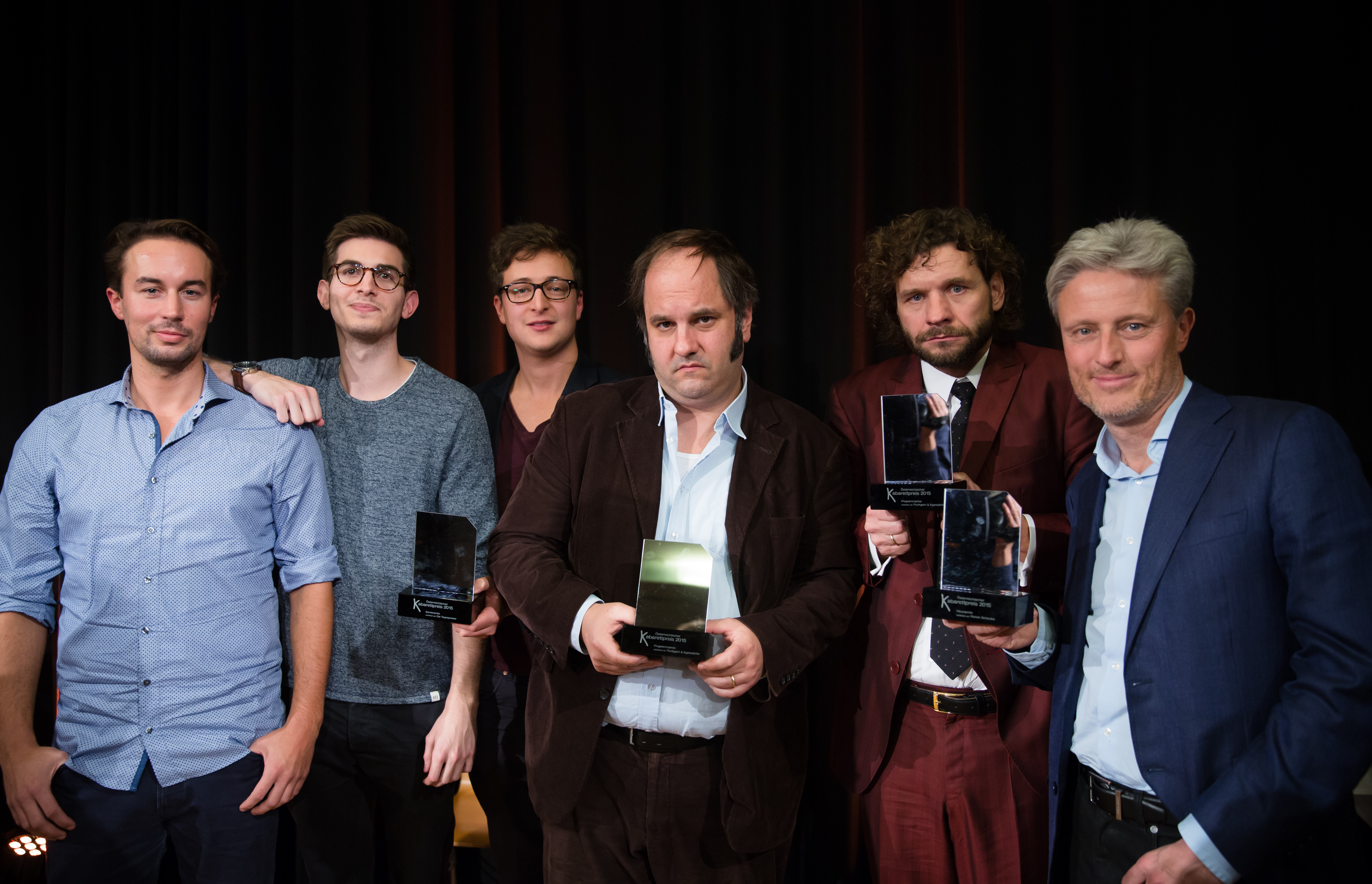 Die Tagespresse (Fritz Jergitsch, Sebastian Huber and Jürgen Marshal), Matthias Egersdörfer, Martin Puntigam and Florian Scheuba, the laureates of the Austrian Cabaret Award 2015 at Urania in Vienna, Austria.